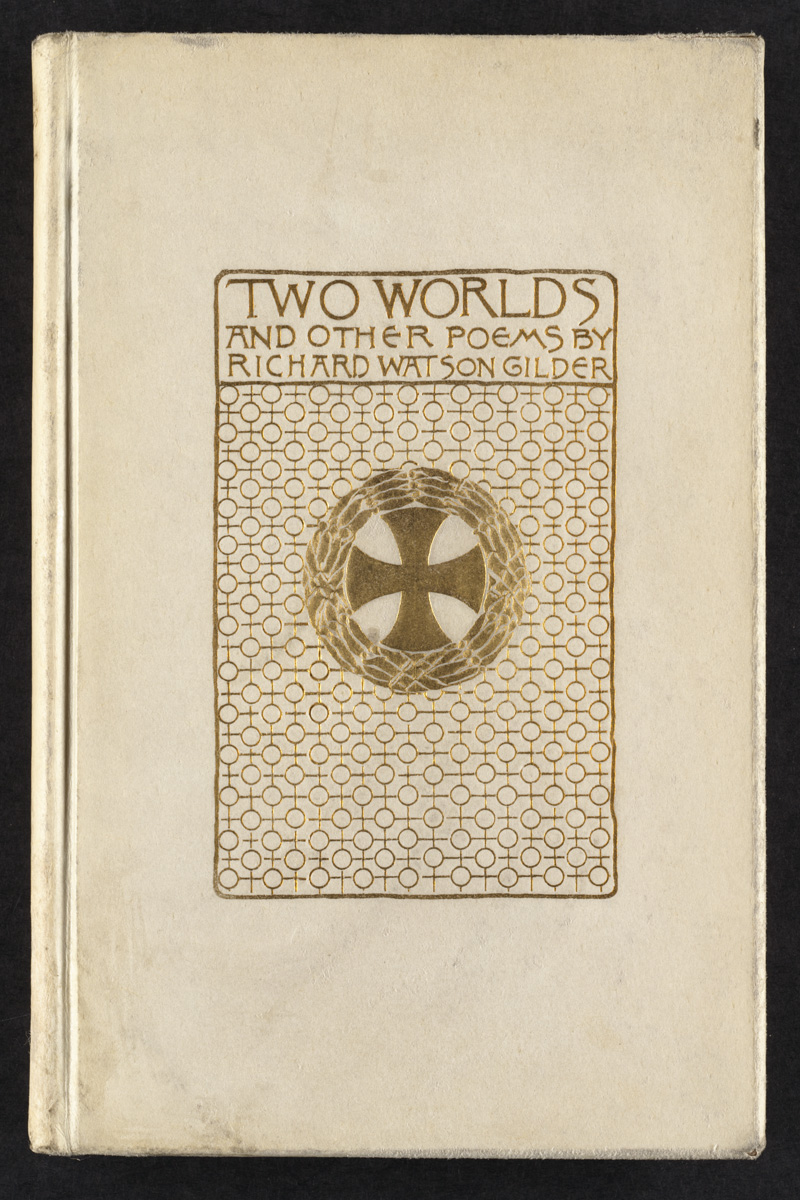 File name: 06_04_000024Title: GILDER(1891) Two worlds and other poemsDate issued: 1891Genre: Book coversNotes: Gilder, Richard Watson, 1844-1909 (Author)Collection: Sarah Wyman Whitman BindingsLocation: Boston Public Library, Special CollectionsRights: No known copyright restrictions.